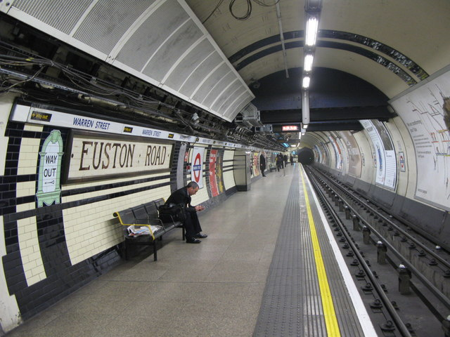 Euston Road tube station platform